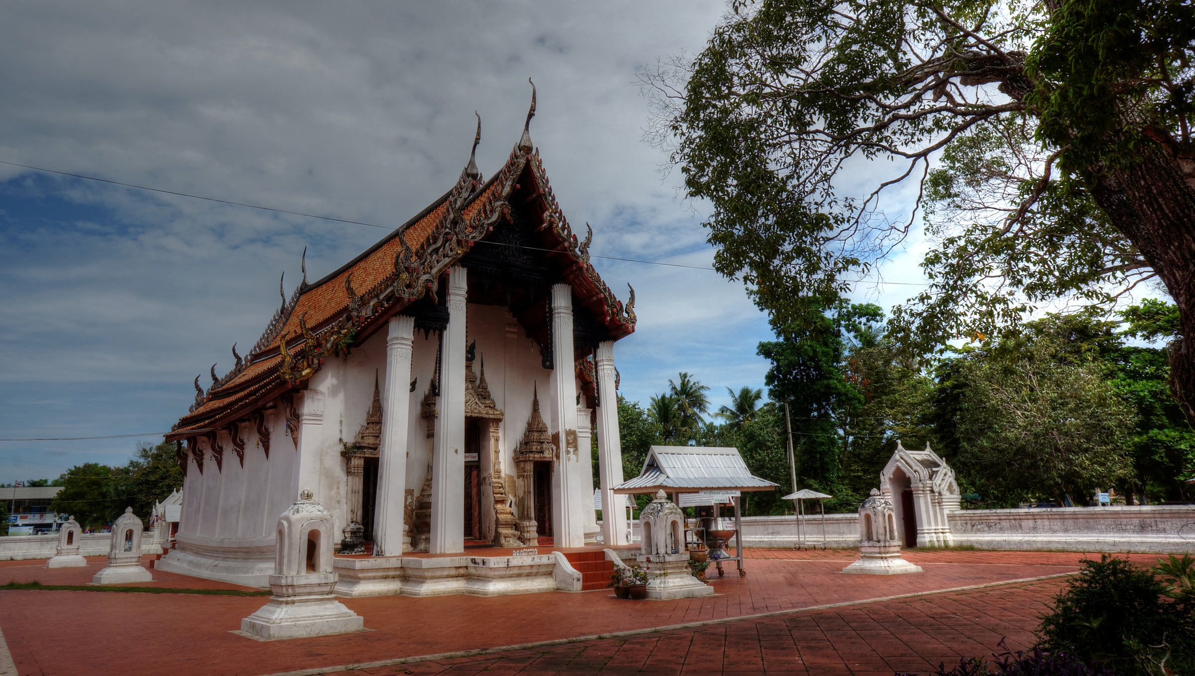 The ubosot of Wat Prasat